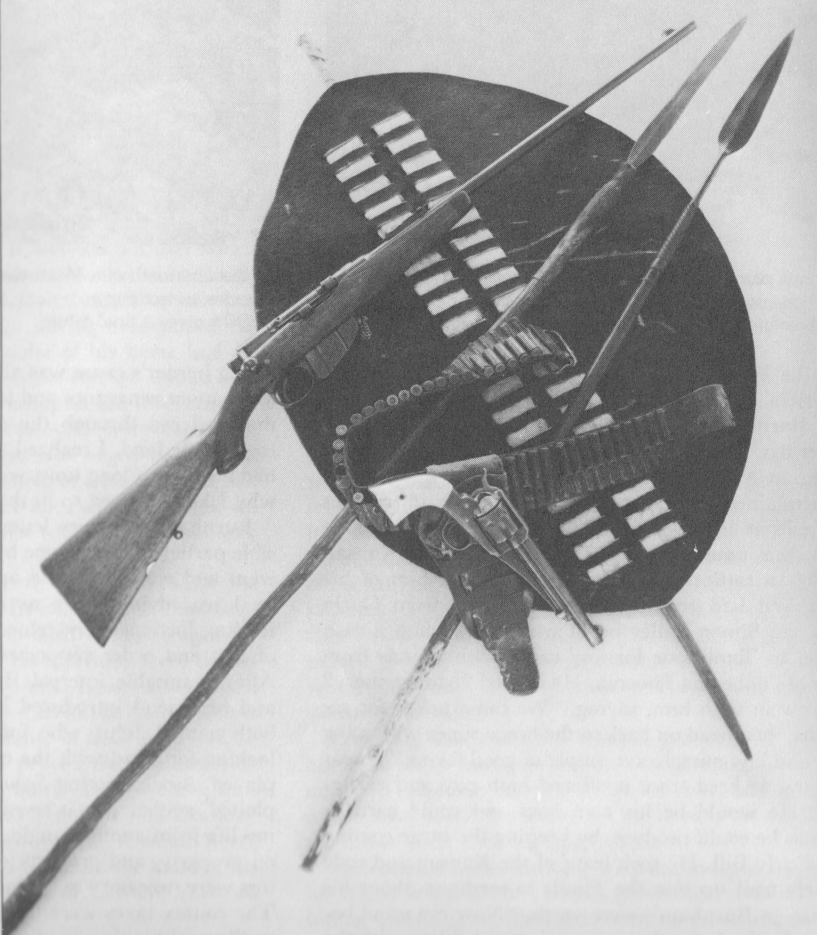 Caption reads: Major Burnham's favorite rifle was his Birmingham Small Arms .303 Lee Metford, the rifle he used to kill Mlimo, the Matabele high priest. The Lee Metford was one of he first successful bolt actions, offering high velocity and a 10-shot magazine. Burnham modified his Rhodesian bandolier to carry both .303 rifle cartridges and .44-40 cartridges for his Remington (Model 1875) revolver. The Matabele shild and stabbing spears are from the 1896 Matabele War.